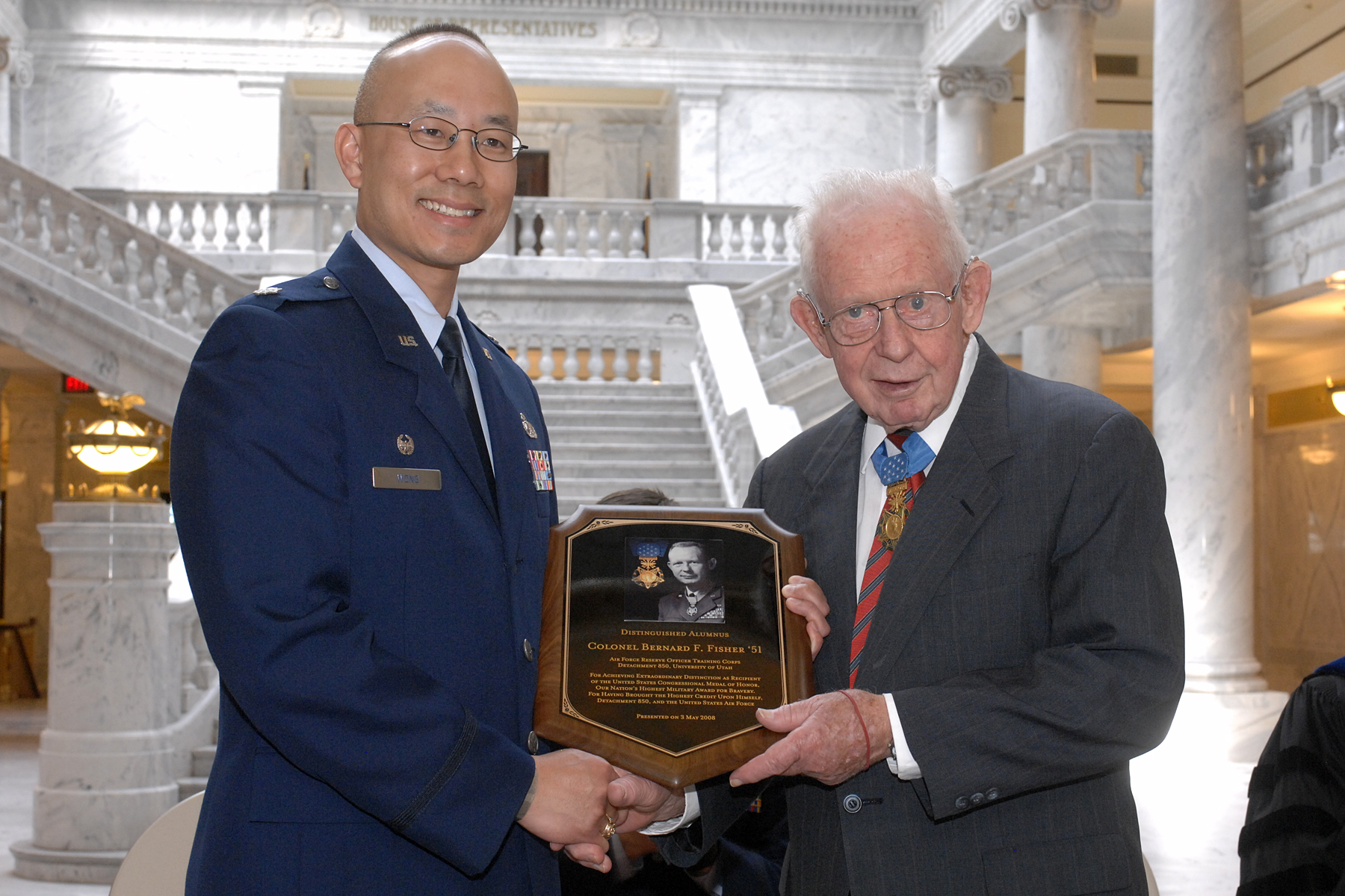 Congressional Medal of Honor Recipient Colonel Bernard F. Fisher, University of Utah Class of 1951, received the Detachment 850 Air Force Reserve Officer Training Corps (AFROTC) Distinguished Alumnus Award on 3 May 2008. Colonel Fisher received the award for achieving extraordinary distinction as recipient of the Congressional Medal of Honor, our Nation's highest military award for bravery and for having brought the highest credit upon himself, Detachment 850, and the United States Air Force. Presenting the award is Lt Col E. Kent Wong, Commander of AFROTC Detachment 850, University of Utah.